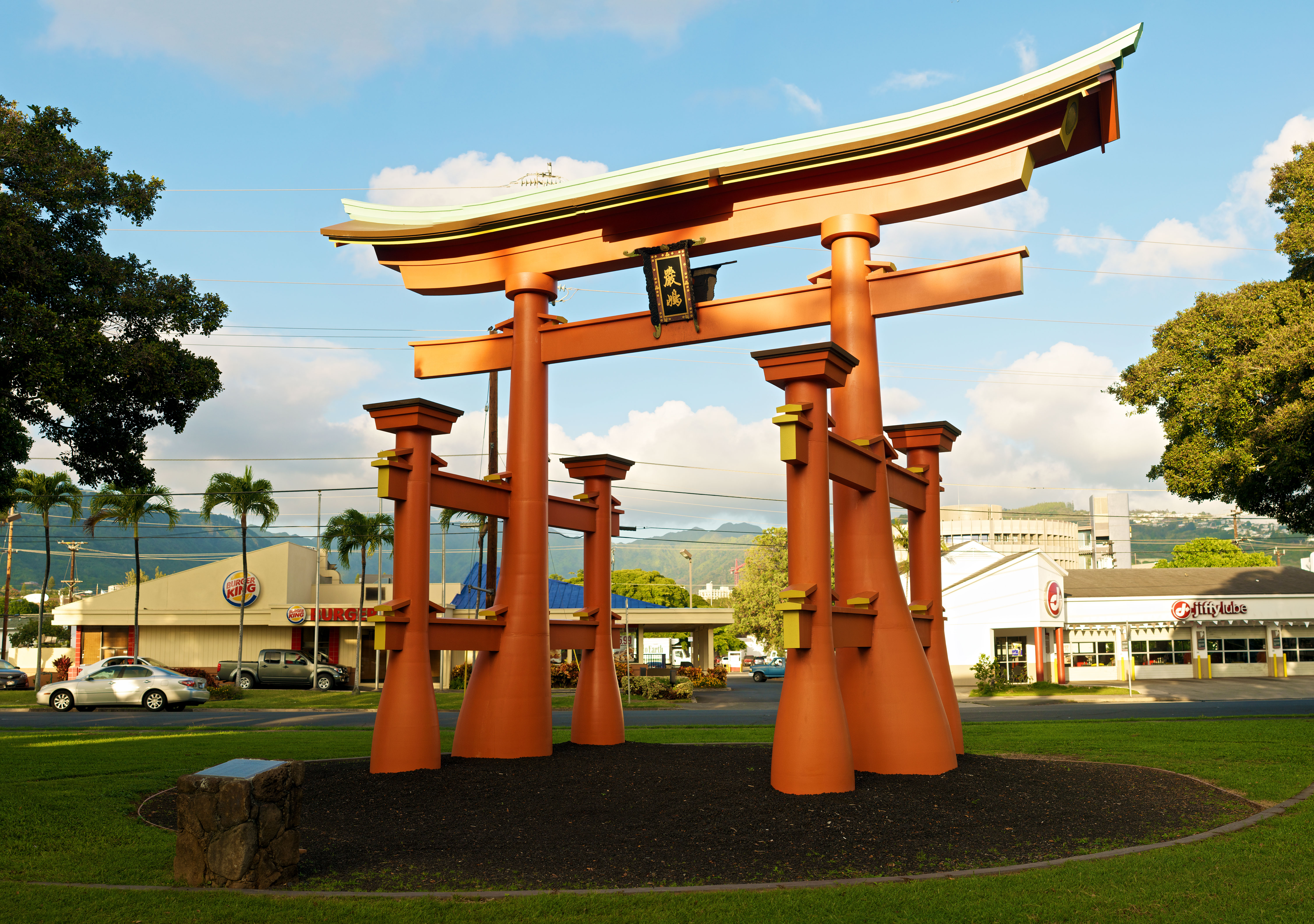 View of the Itsukushima replica torii in Honolulu, Hawaii, taken from the S. King Street side